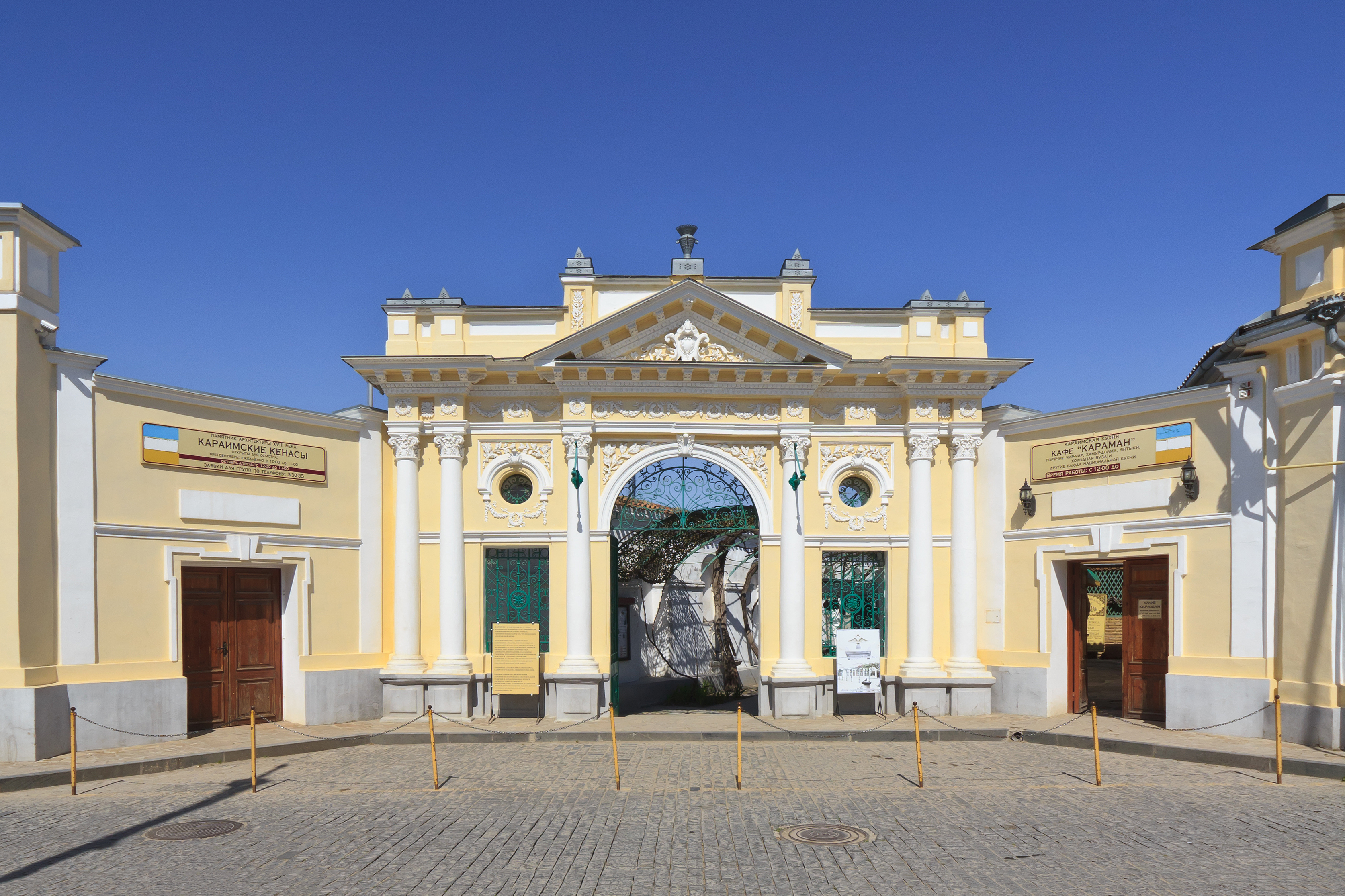 The entrance gate to the former Karaite synagogues in the old town of Eupatoria, Crimean Peninsula.